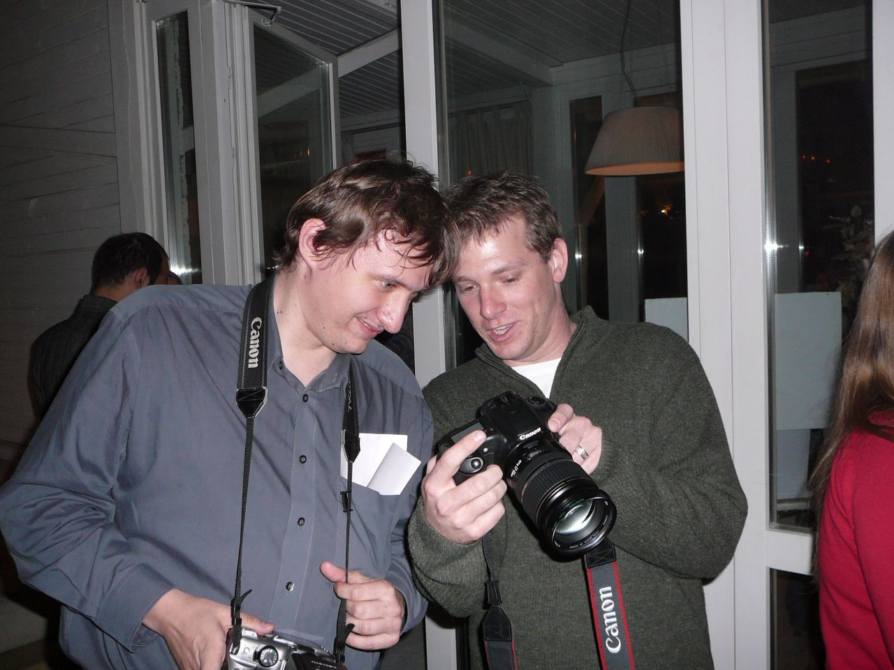 Brad Fitzpatrick, an early blagger.